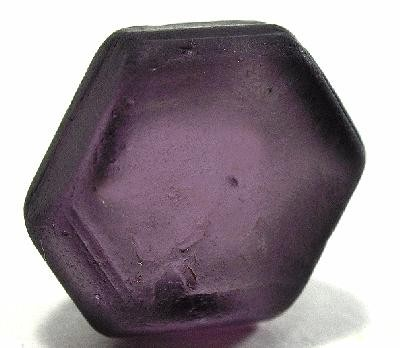 Magnesiotaaffeite-2N'2S Locality: Ratnapura, Ratnapura District, Sabaragamuwa Province, Sri Lanka (Locality at ) Taaffeeite was an odd story - a gem crystal species first identified from gem rough material, rather than from a crystal. It was a long time before anybody found a crystal to work with, and today they are still extremely rare, probably the rarest and most desirable of the various gem species found in Sri Lanka. This remarkable floater, complete hexagonal crystal is considered by the gem trade experts , Bill Pinch, and others to whom i showed it at Tucson to to be the world's best yet known for species. It would also cut one of the largest known stones and perhaps the best, as it has good uniform purple color. Most specimens are tiny broken chunks, or the occasionally fine transparent crystal with SOME faces. This is COMPLETE all around. It is so remarkable, it is off the charts. The crystal's rear face was polished slightly for a refractive index test , just to be sure of its verification (this is an important test for the species). 1.3 x 1.3 x 0.6 cm , 9.63 carats This Photo was Photo of the Day - 4th Oct 2008